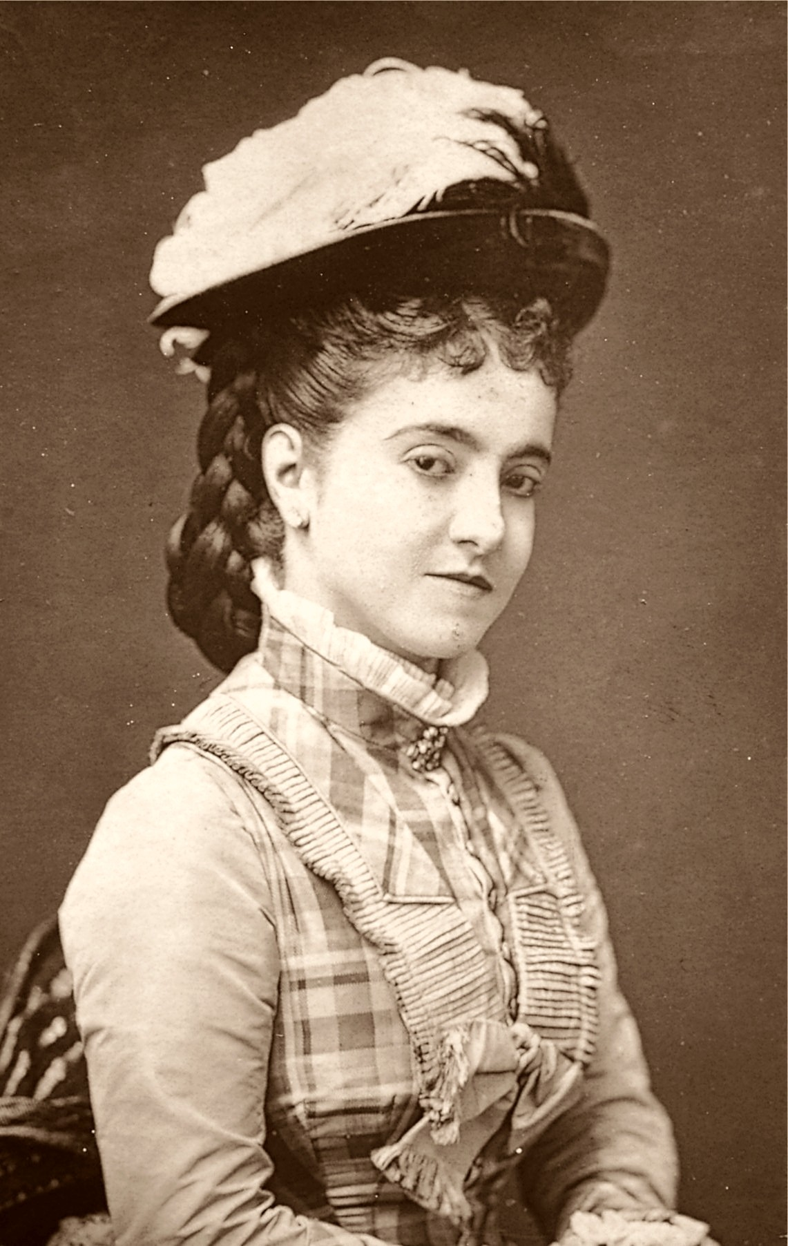 Adelina Patti 1843-1919, Spanish Opera Singer.